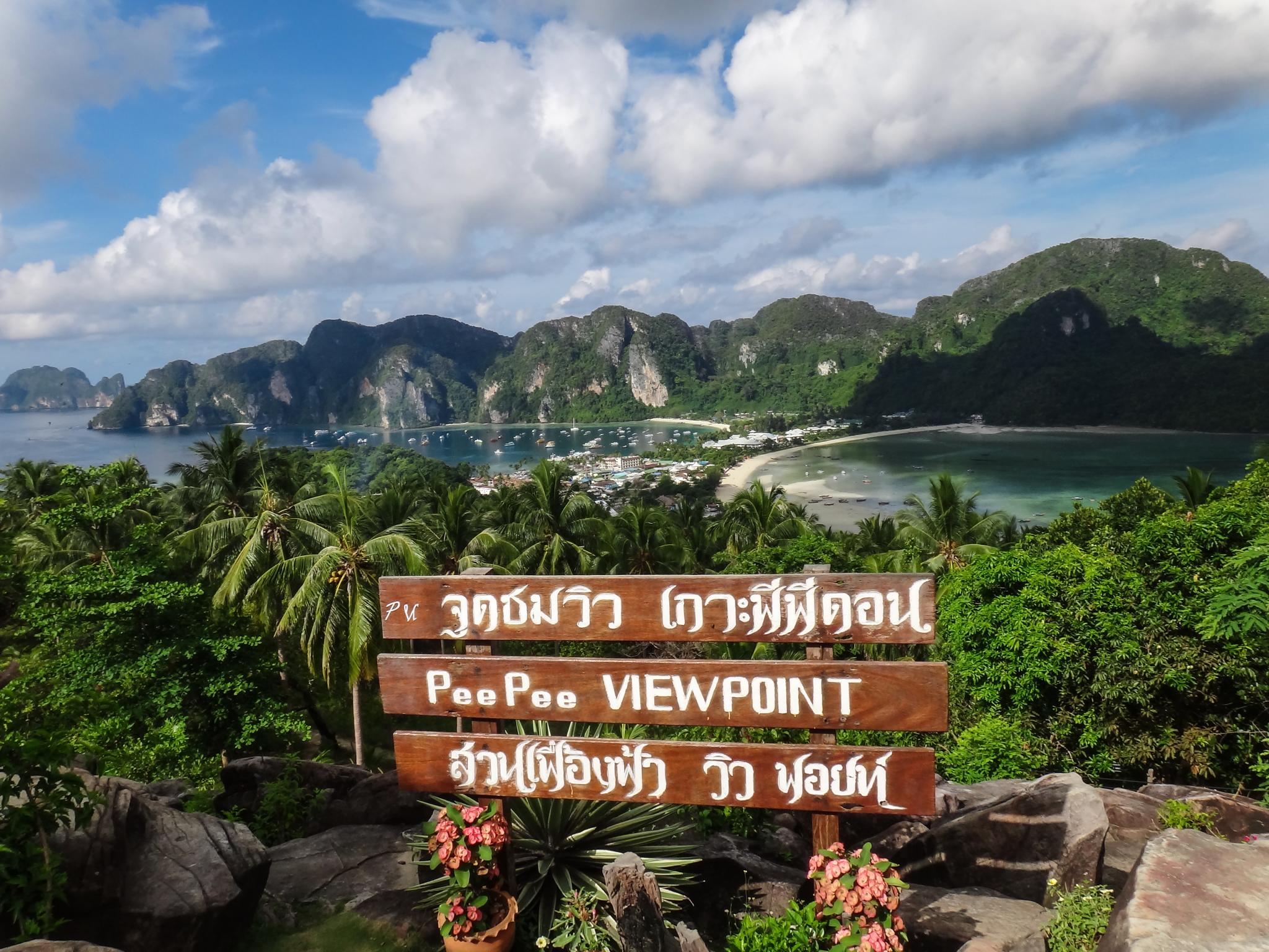 Ko Phi Phi